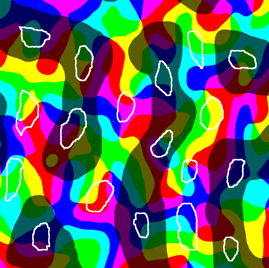 Map showing relation between ocular dominance columns, orientation columns, and cytochrome oxidase blobs. Drawn by hand to resemble various maps seen in the literature, but the work and design is my own. Ocular dominance is signified by light and dark, orientation by color, and CX blobs by white outlines. Incorporates every known relation I could find between the columns. Most similar to what might be seen in a macaque.